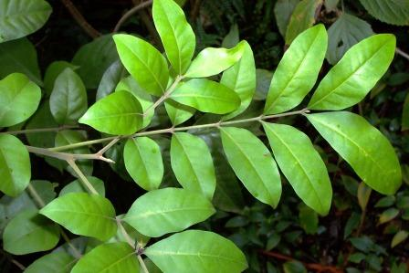 Dysoxylum_fraserianum_-_foliag